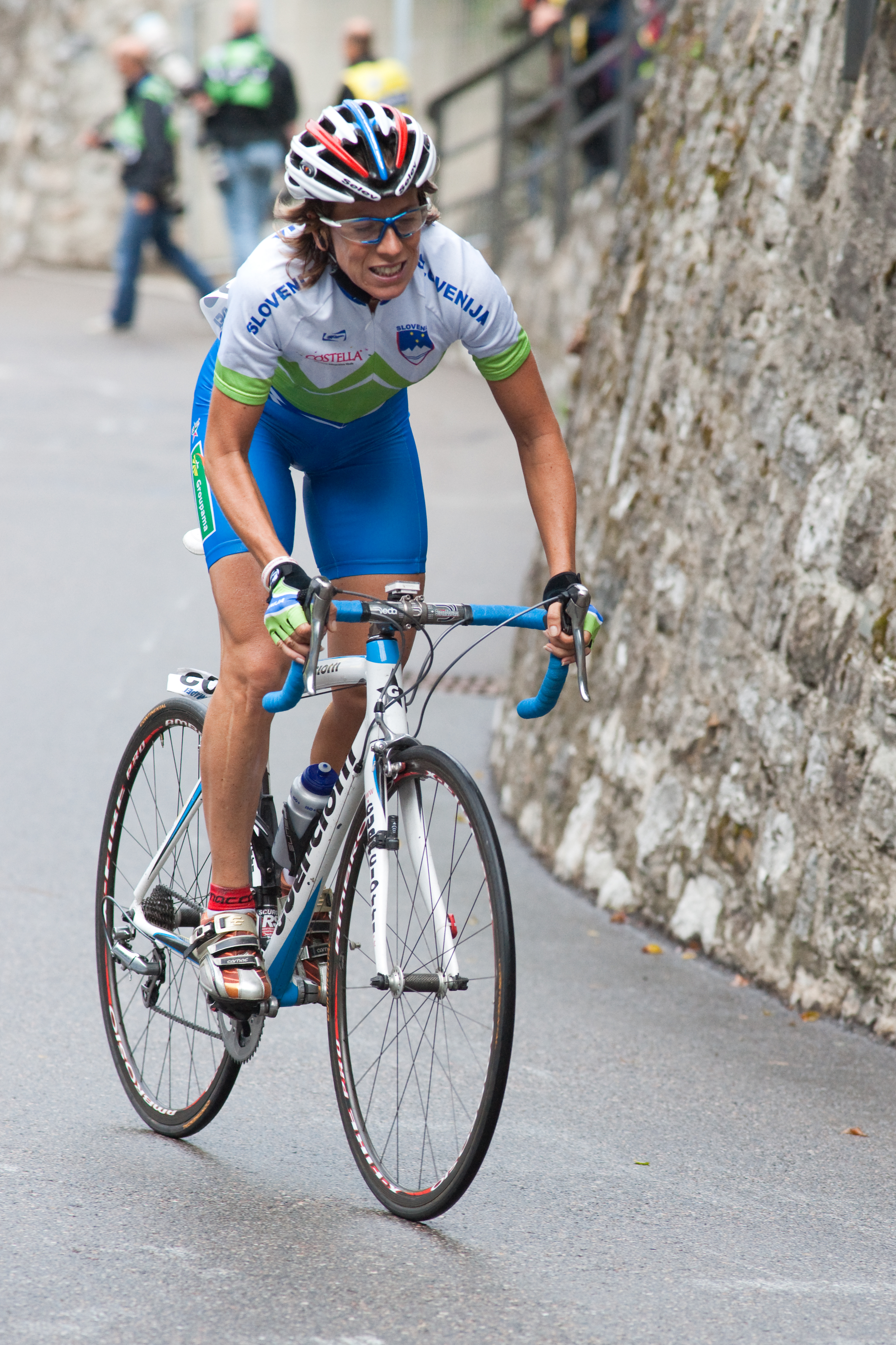 Sigrid Corneo during the 2009 UCI Road World Championships in Mendrisio, Switzerland.